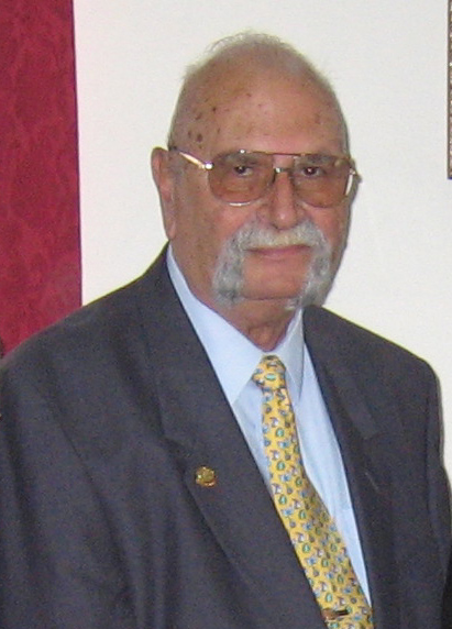 Photo of Avedis Yapoudjian